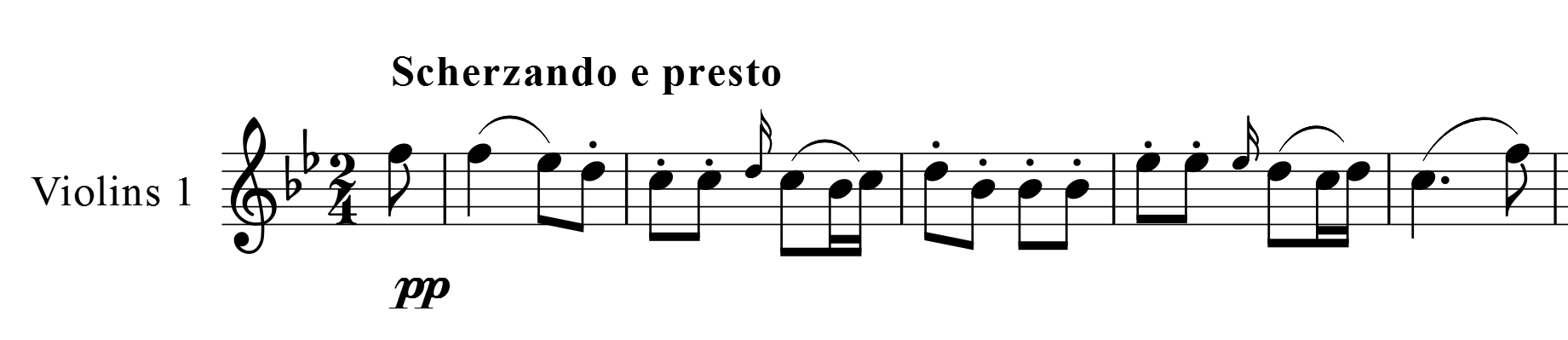 Joseph Haydn, Symphony No. 66, last movement, bar 1-5